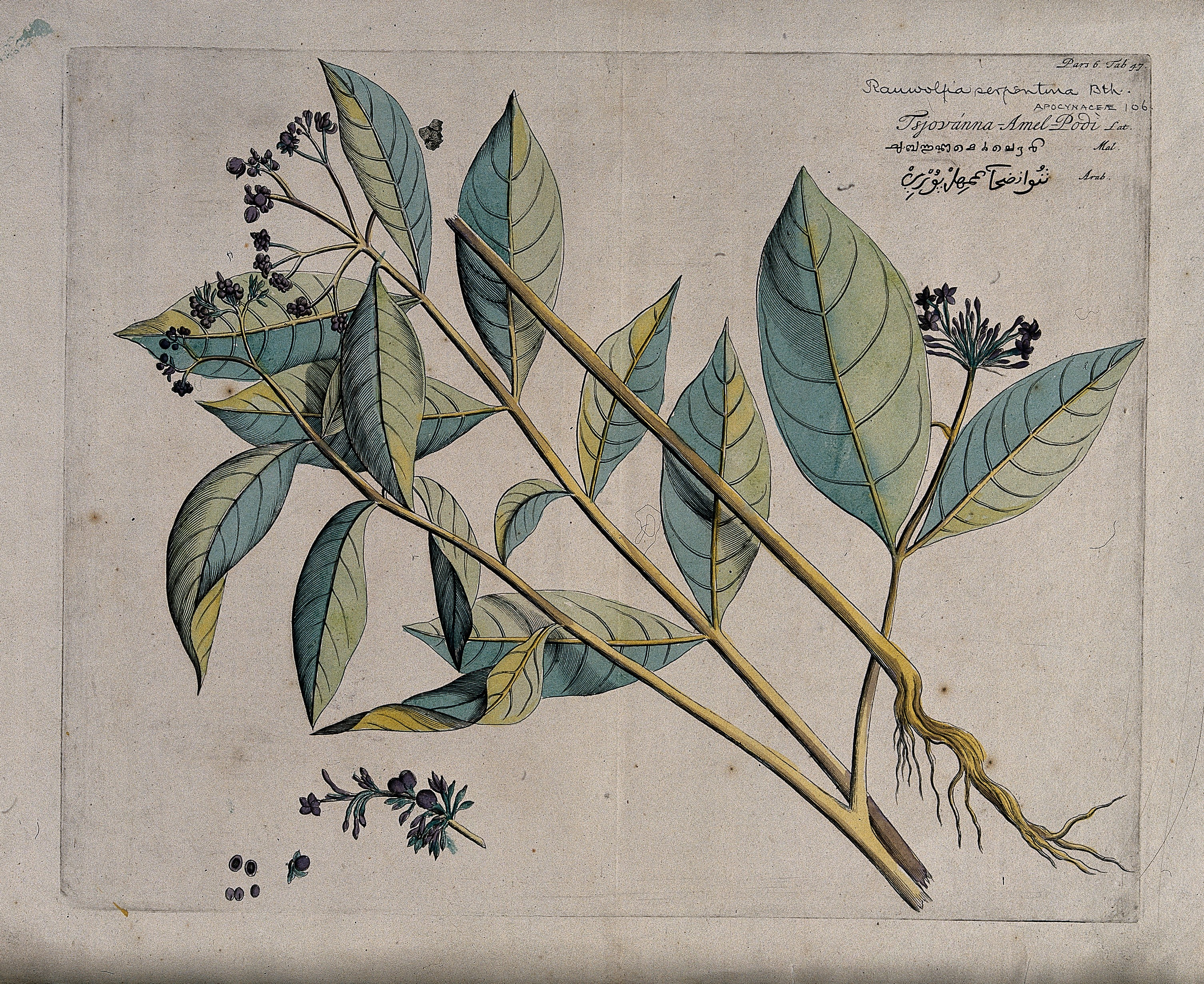 tsjovanna-ampelodi, Rheede, Hortus Malabaricus, vol. 6:81, tab. 67 Indian Snakeroot or Java Devilpepper (Rauvolfia serpentina (L.) Kurz): flowering and fruiting branches, root, inflorescence and sectioned fruit with seeds. Coloured line engraving. Iconographic Collections Keywords: tropical plants; engravings; Apocynaceae; botany - pre-linnaean works; Hendrik Adriaan van Reede tot Drakestein; plants, cultivated - india; plants, useful - india; botany - india - malabar coast; scientific illustrations